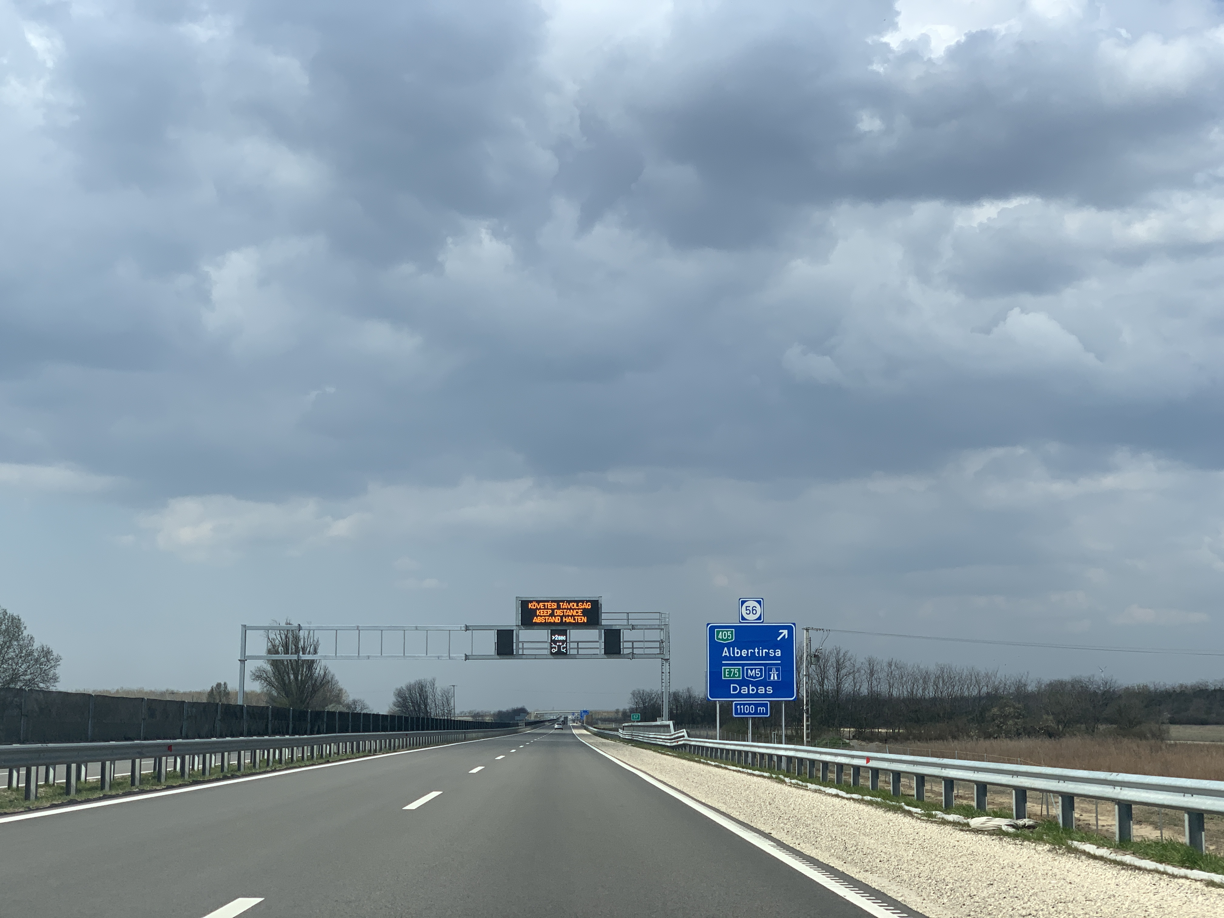 Motorway M4 in Hungary, near Albertirsa, in the direction of Budapest